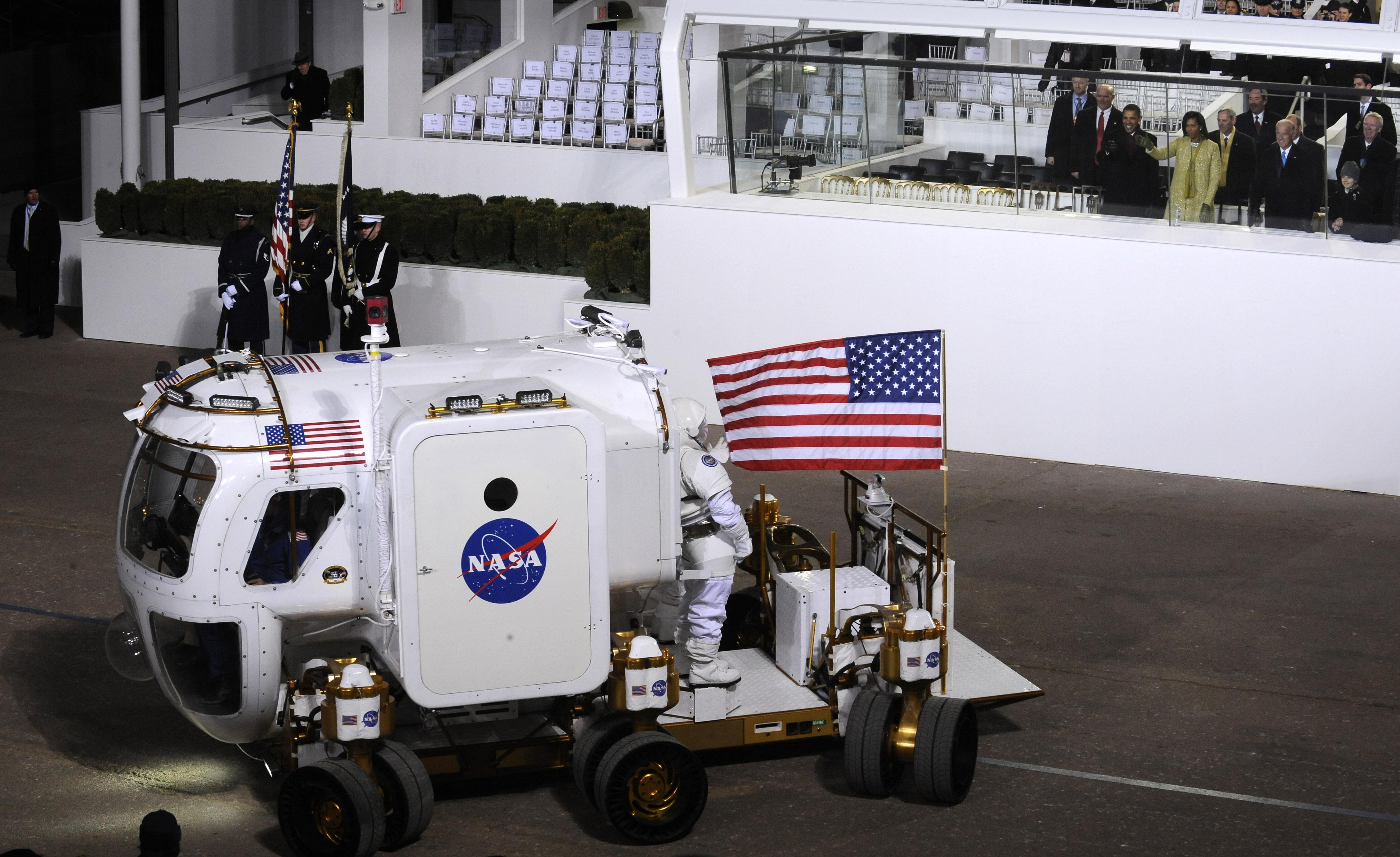 Lunar Rover at the 2009 Inaugural Parade - President Barack Obama, Michelle Obama and Vice President Joe Biden watch as the NASA Lunar Electric Rover stops in front of the Presidential reviewing stand on Pennsylvania Avenue in front of the White House in Washington, Tuesday, Jan. 20, 2009.